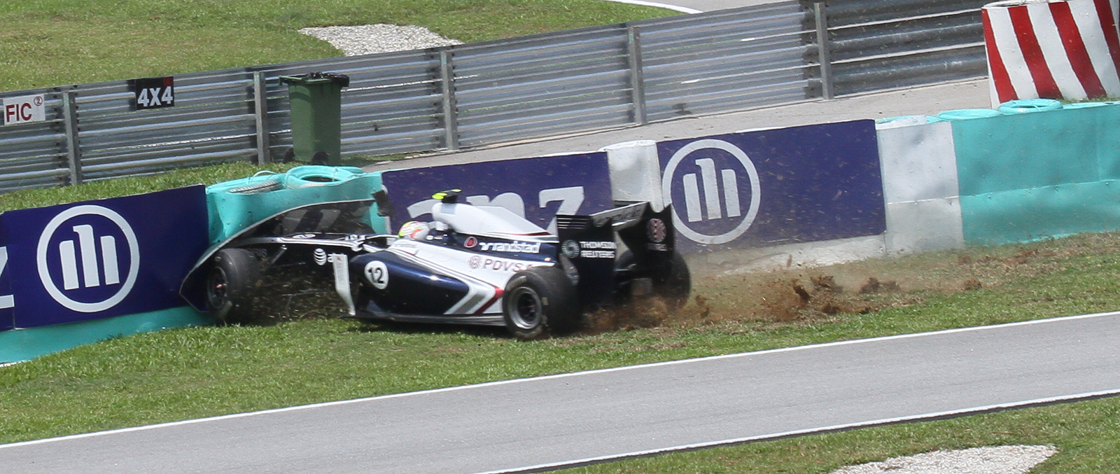 Formula One 2011 Rd.2 Malaysian GP: Pastor Maldonado (Williams) crashed at the second practice session on Friday.